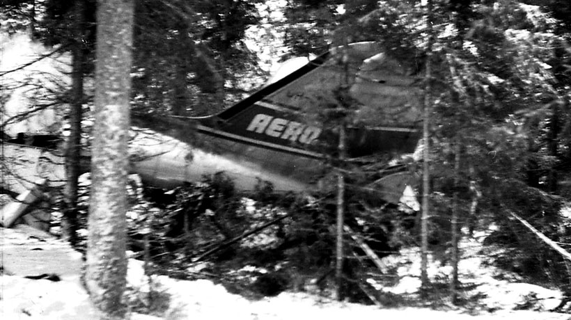 Tail of the Douglas C-47A-30-DK (DC-3C) aircraft (OH-LCC) of Aero O/Y after the crash of 3 January 1961 in Kvevlax, Finland.